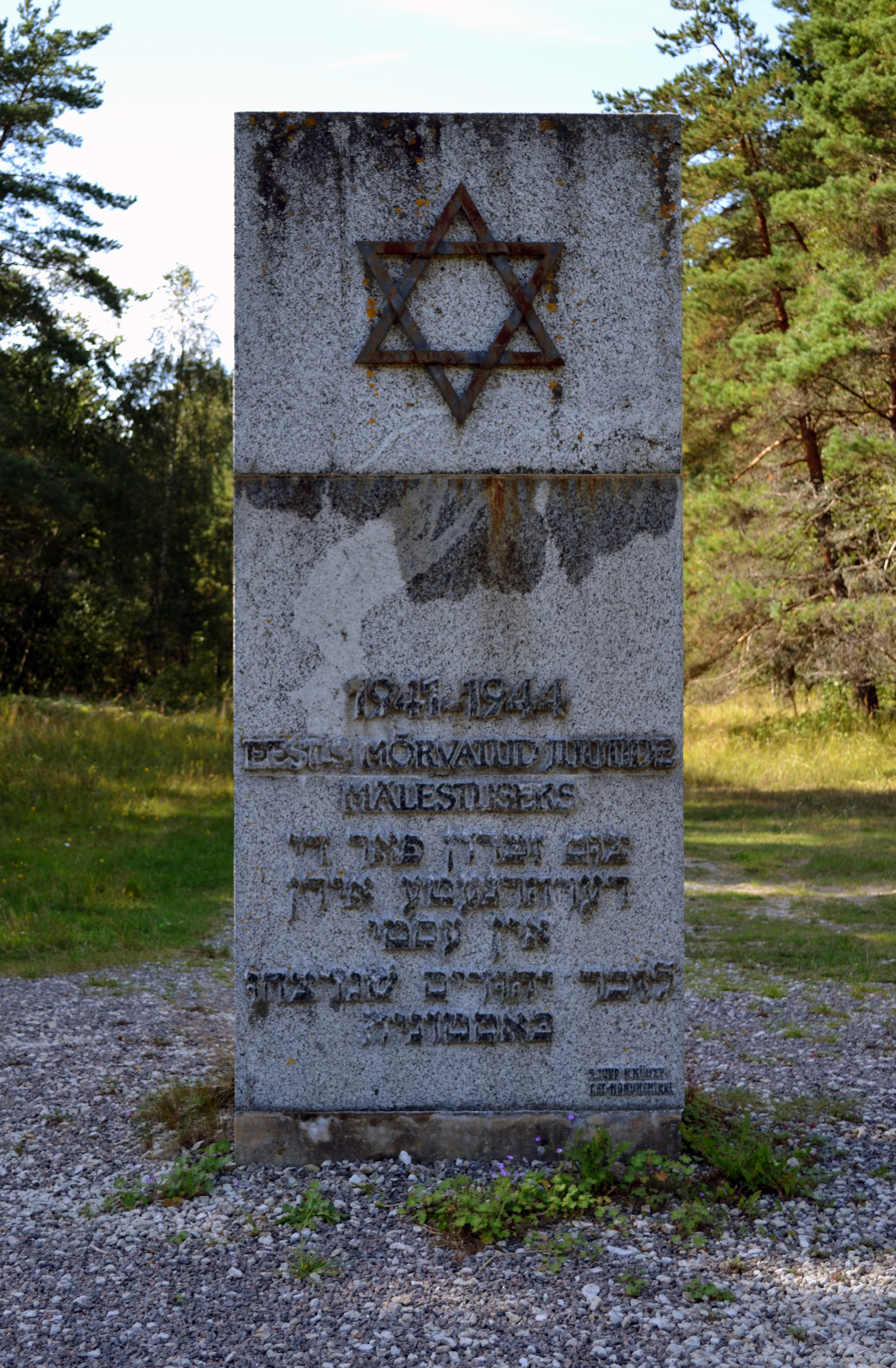 Holocaust memorial in Klooga, Estonia.